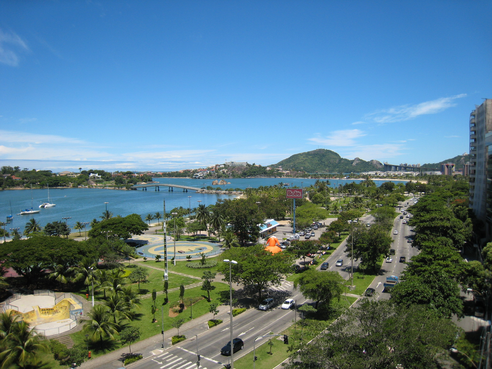 The beaches of Vitória, Brasil